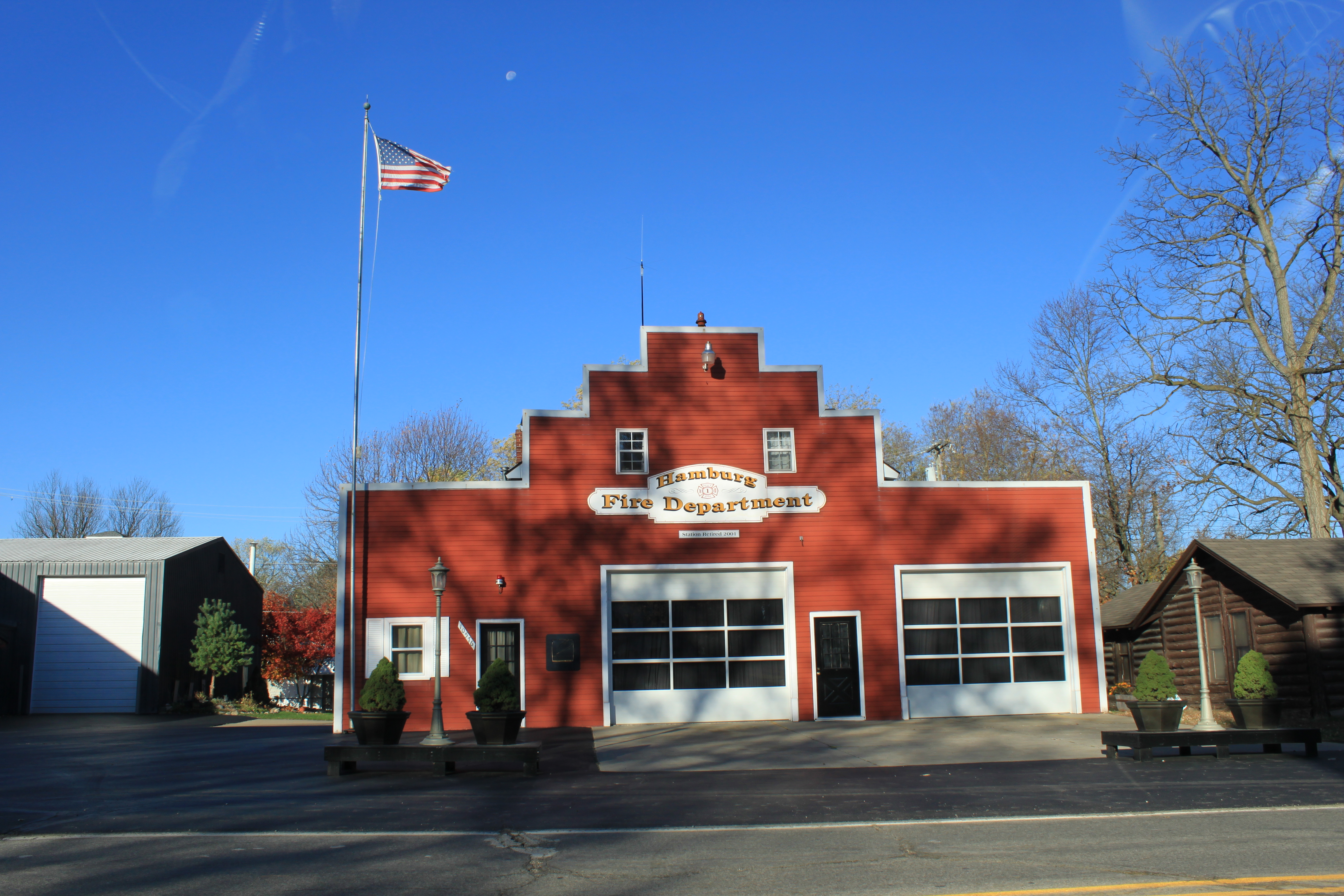 Hamburg Township, Michigan, former Fire Station, M-36